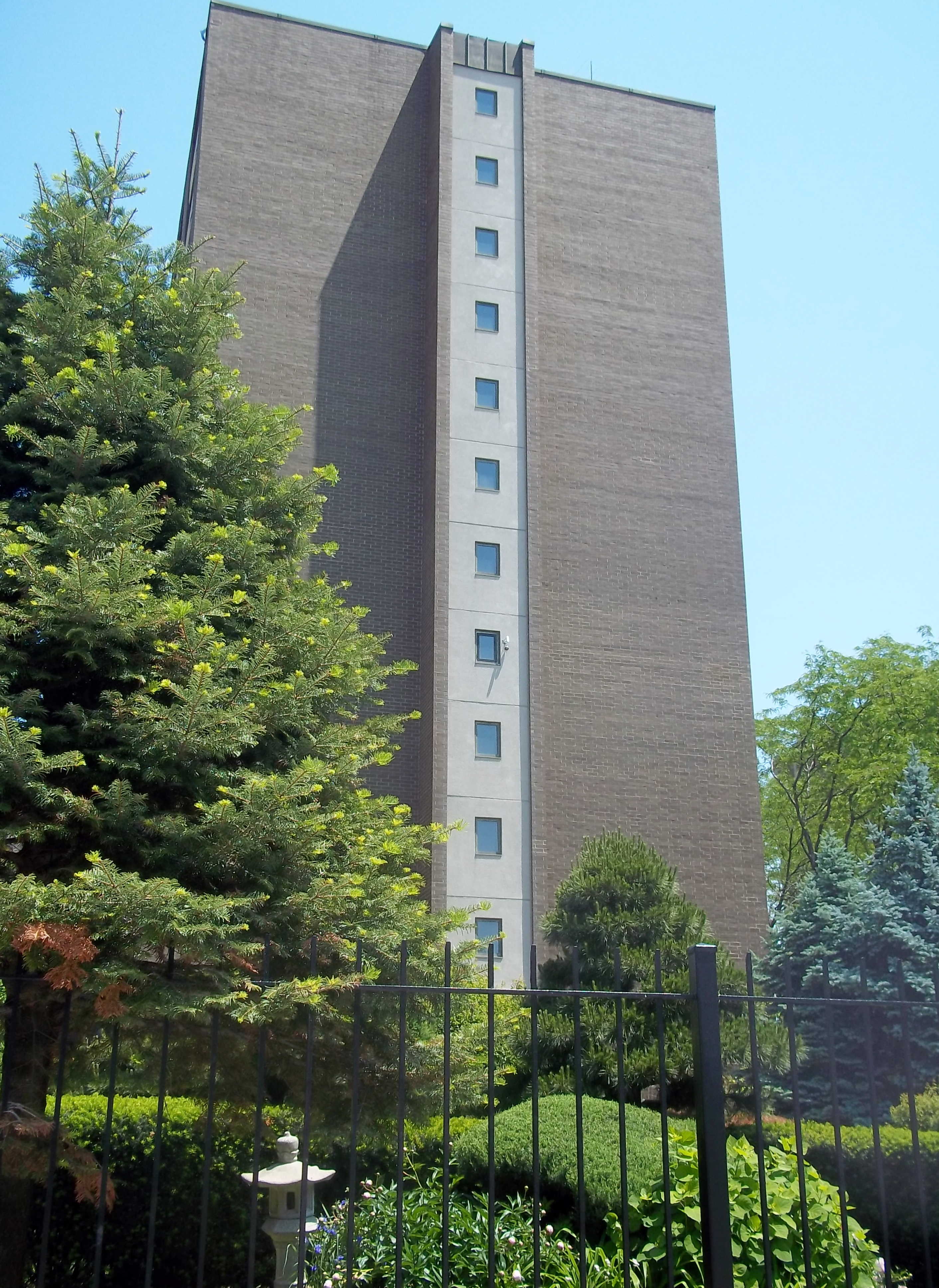 Japanese in Chicago Heiwa Terrace (Japanese senior citizen center), 920 West Lawrence Avenue (corner of Sheridan Road and Lawrence Avenue), Chicago, Illinois 60640